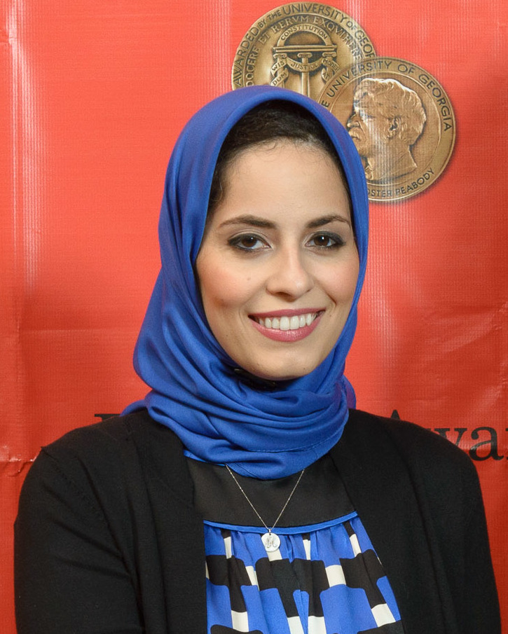 Laila Al-Arian, Anjali Kamat and Mat Skene at the 73rd Annual Peabody Awards for "Made in Bangladesh"